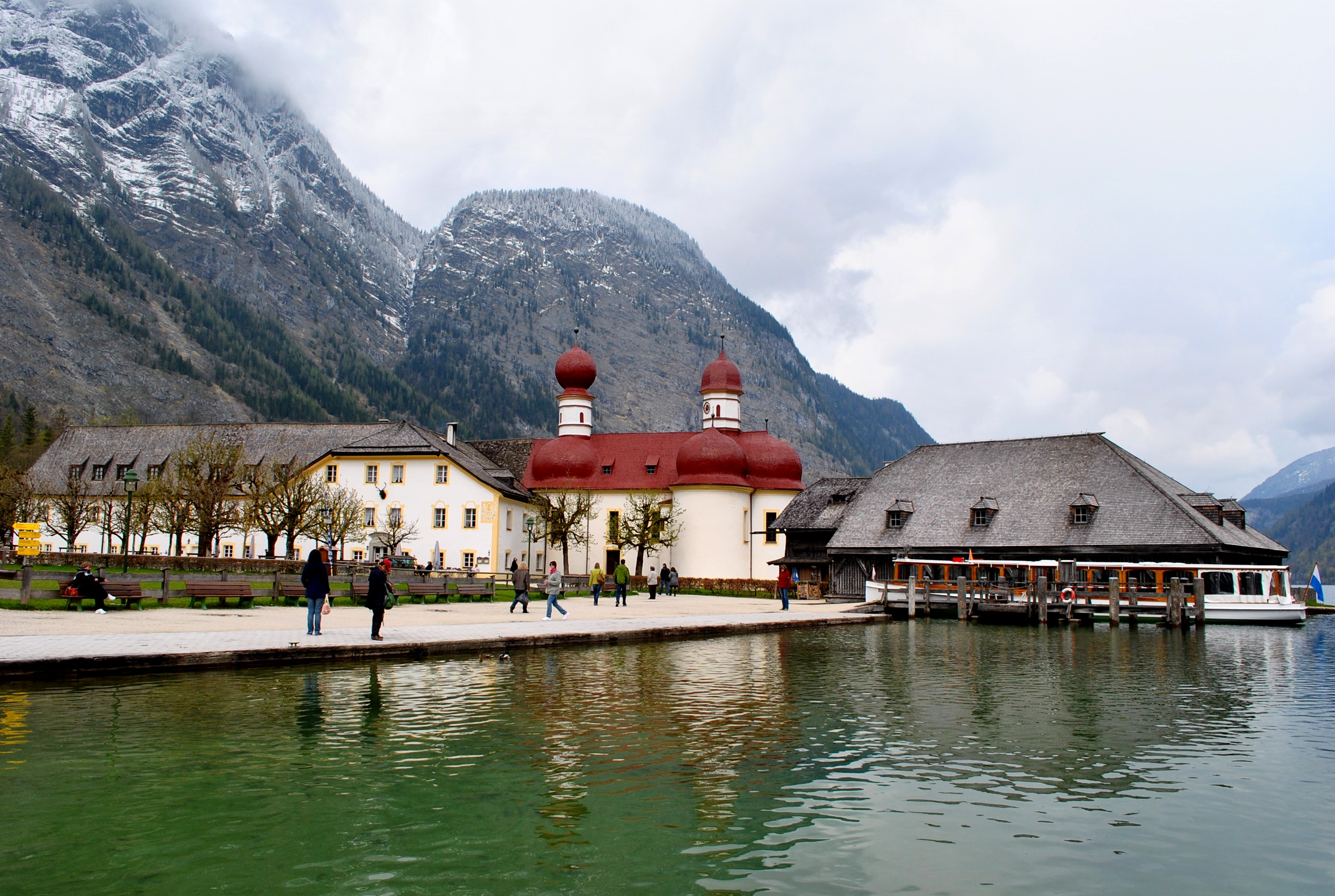 St.Bartholomä church - Konigssee.